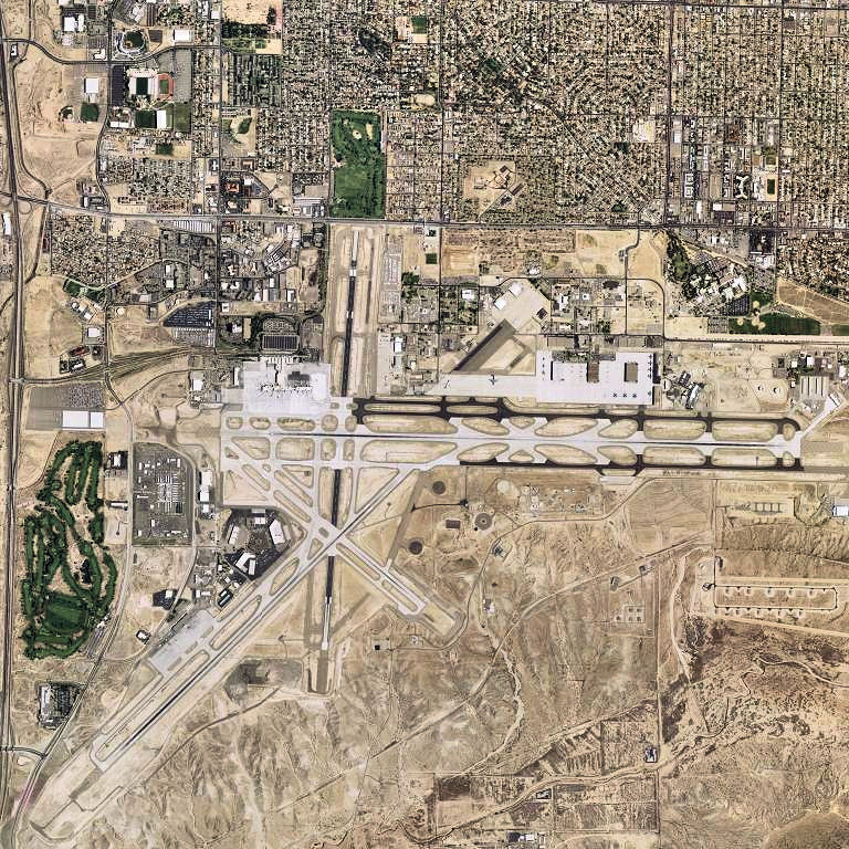 USGS digital orthophoto of Kirtland Air Force Base in New Mexico